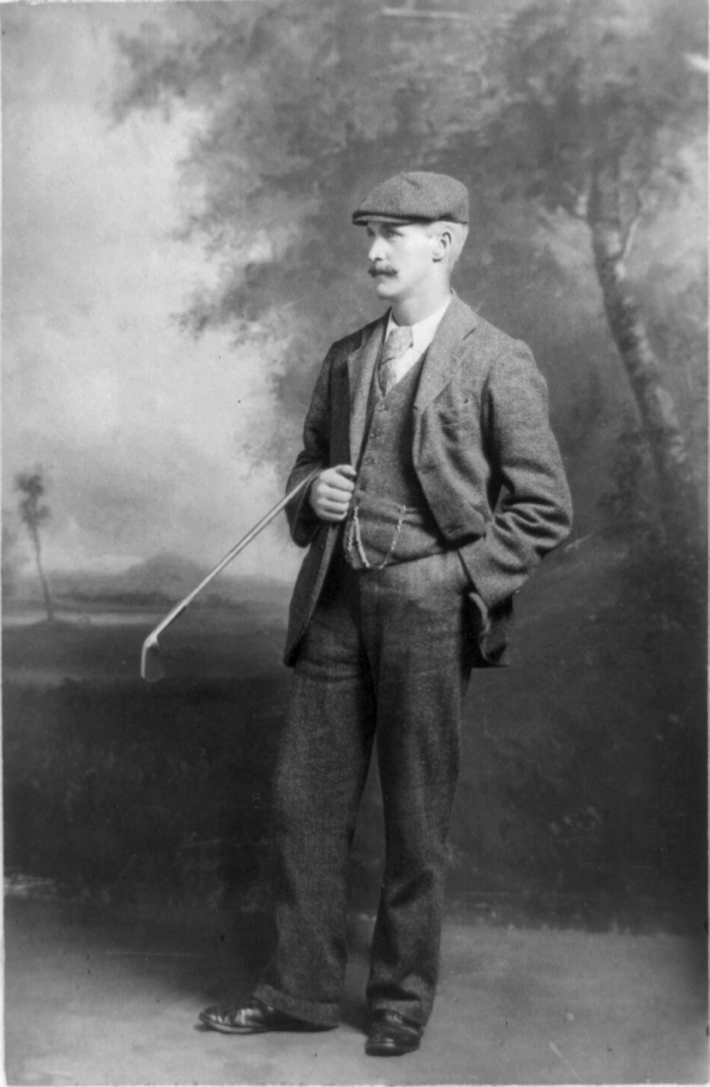 John Henry Taylor, English golfing great and winner of five Open Championships between 1894 and 1913. Taylor was also the co-founder of the original Professional Golfers' Association. The original caption read "John Henry Taylor, golf champion - for the fifth time in his career won the British open golf championship."